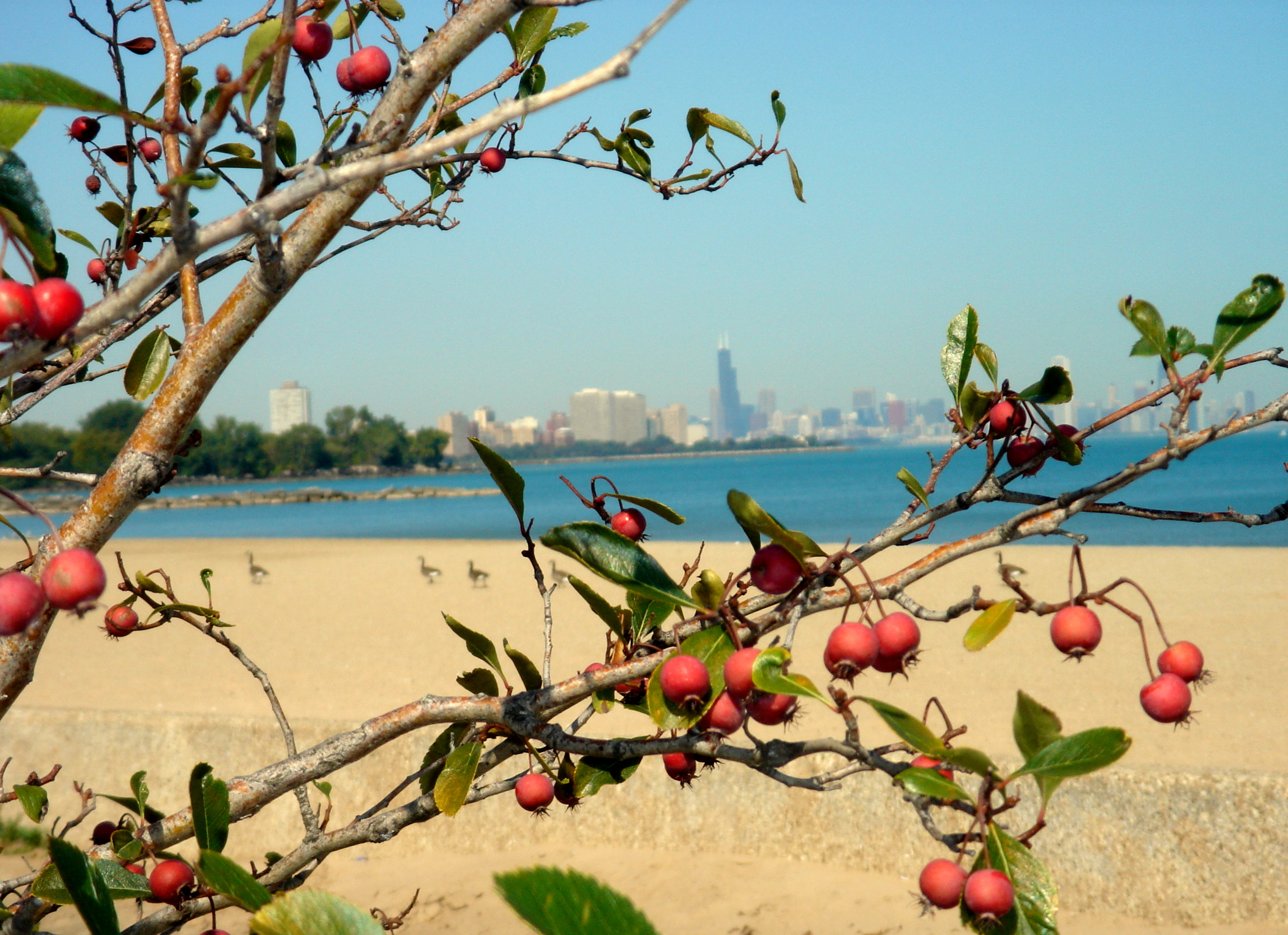 Downtown Chicago from Rainbow Beach, Chicago skyline view through a crab apple tree at Rainbow Beach Location: Chicago